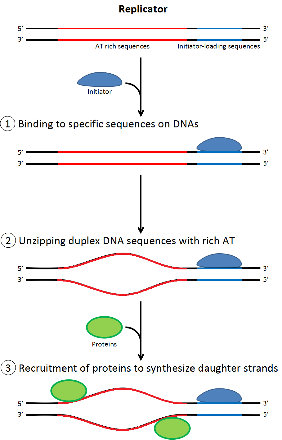 There are AT-rich and initiator-loading sequences on replicators. Initiators bind the initiator-loading sequences and at once the AT-rich sequences are rewound. Initiators recruit other proteins involved in DNA replication.